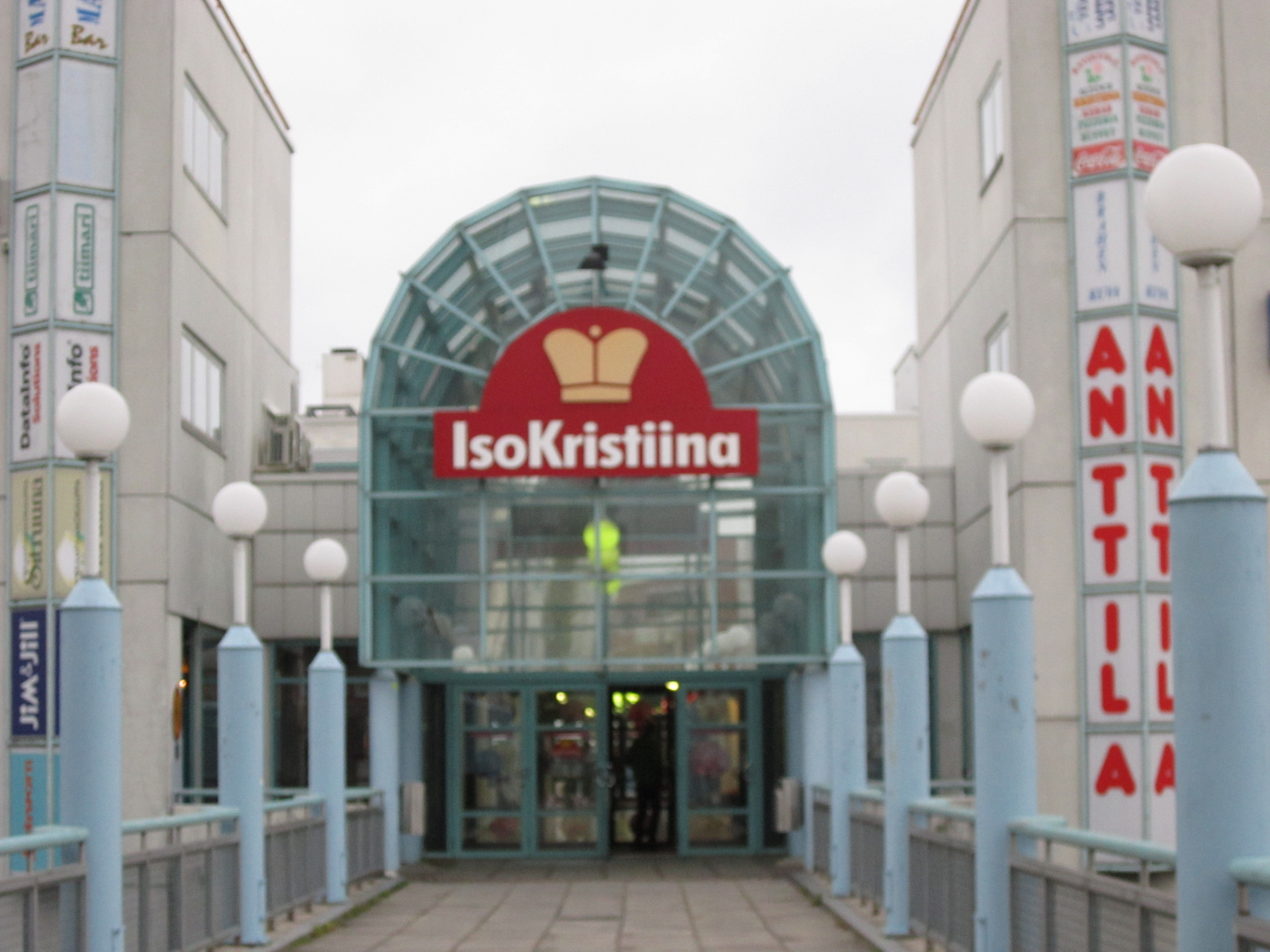 Shopping center IsoKristiina in Lappeenranta.